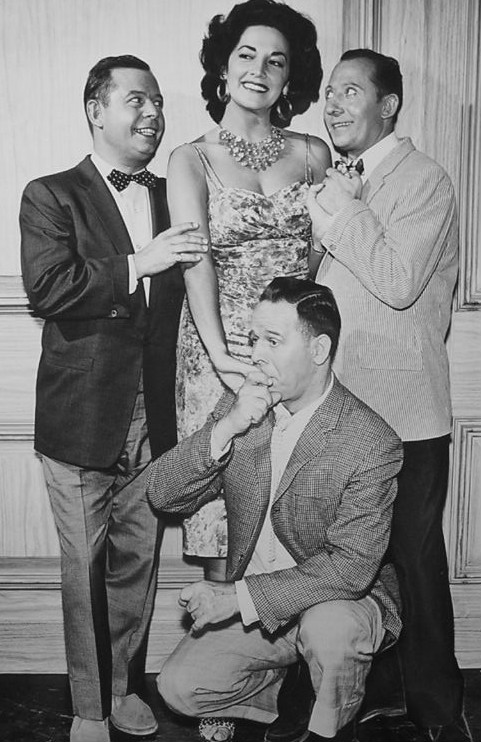 Publicity photo of the Wiere Brothers from their short-lived television show Oh, Those Bells. From left: Sylvester, Herbert and Harry (kneeling) with actress Charla Regis.